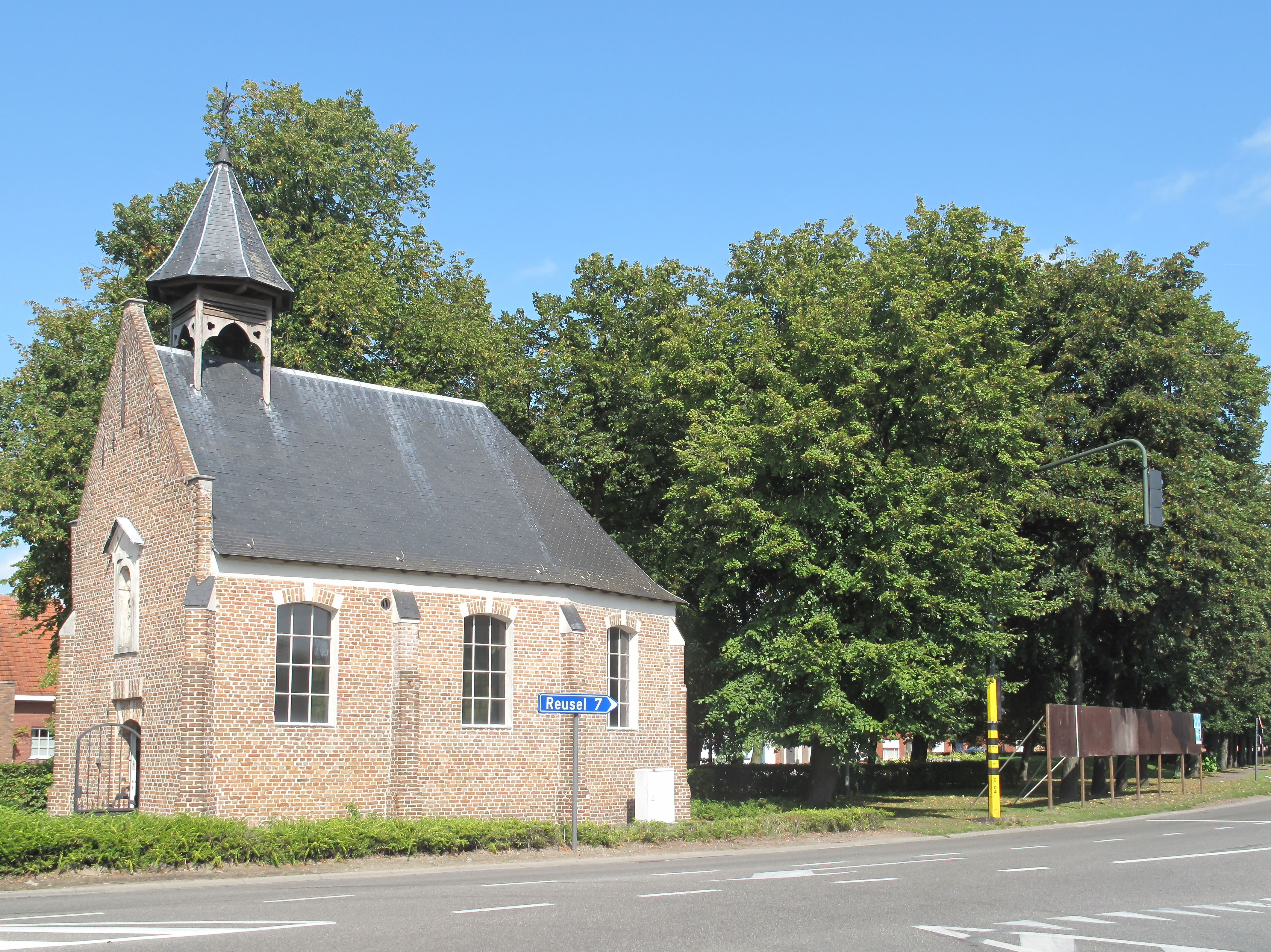 Arendonk, chapel